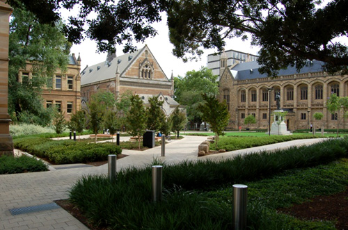 Personal photograph.